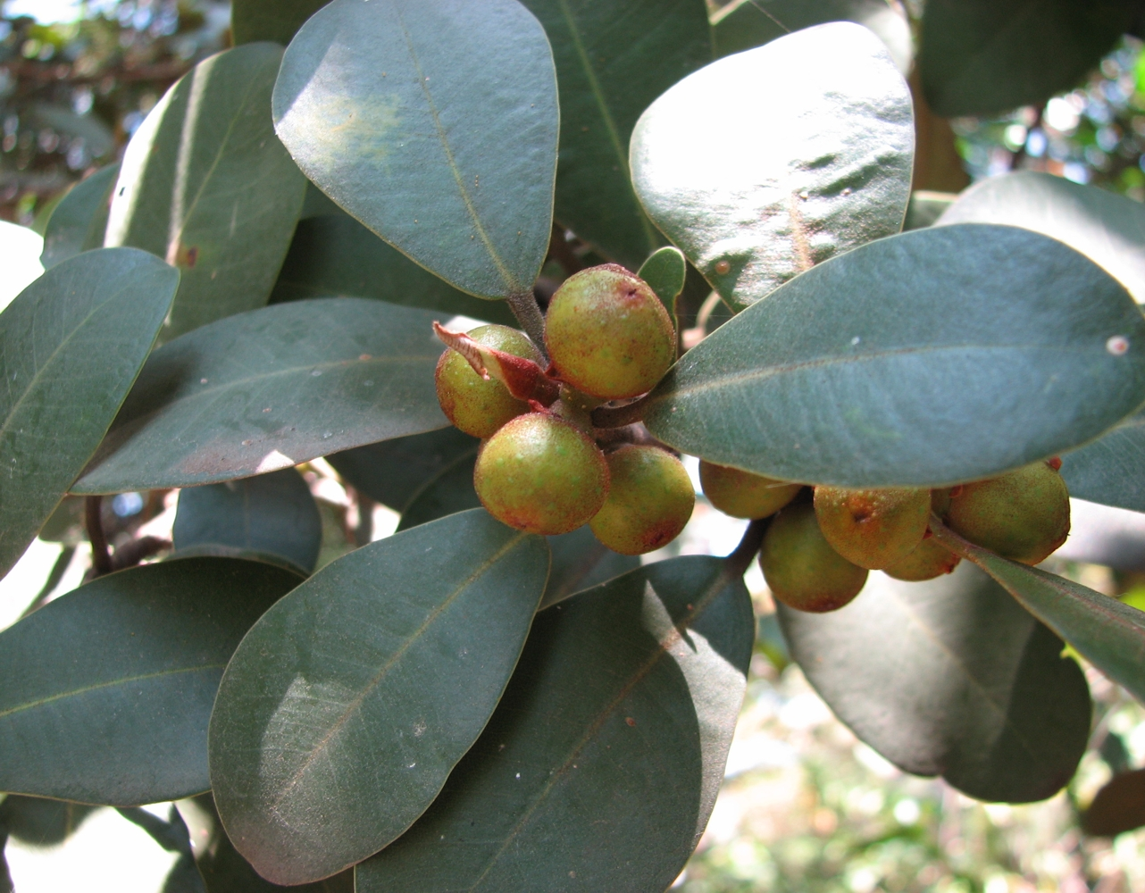 Ficus platypoda (cultivated, labelled) Royal Botanic Gardens, Melbourne